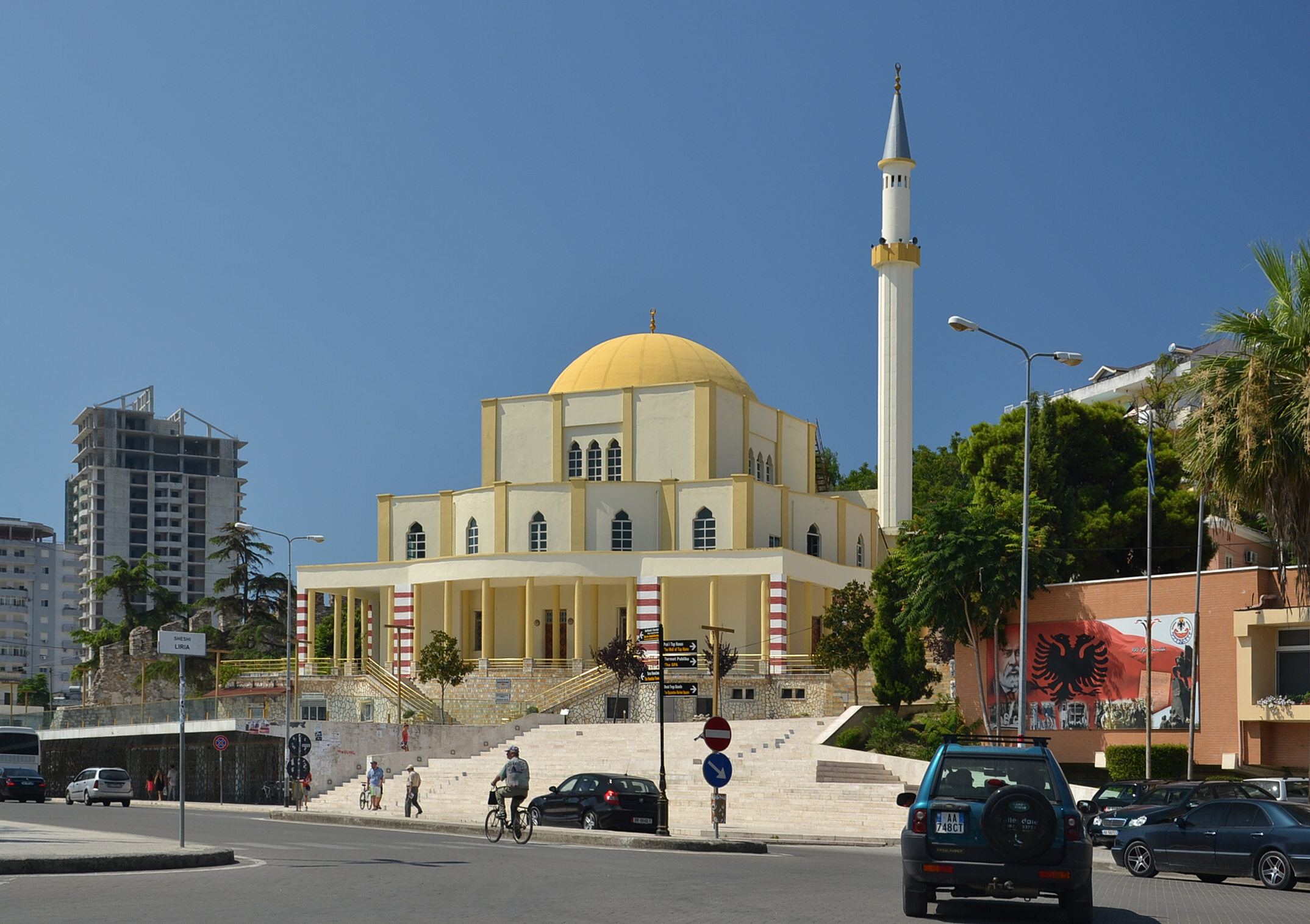 Durrës, Albania - Great Mosque